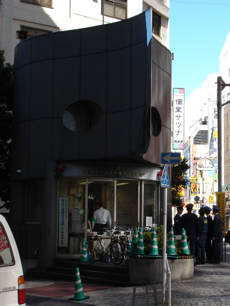 Japanese police office (koban) in Shibuya, Tokyo